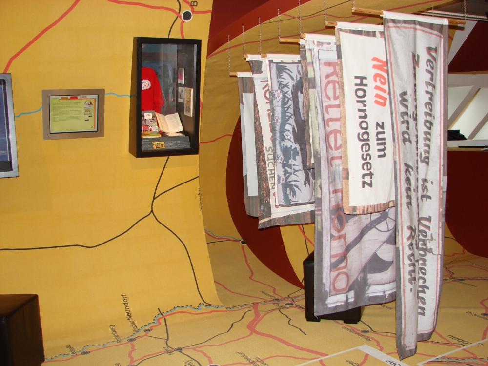 Sector Horno in Archive of disappeared places